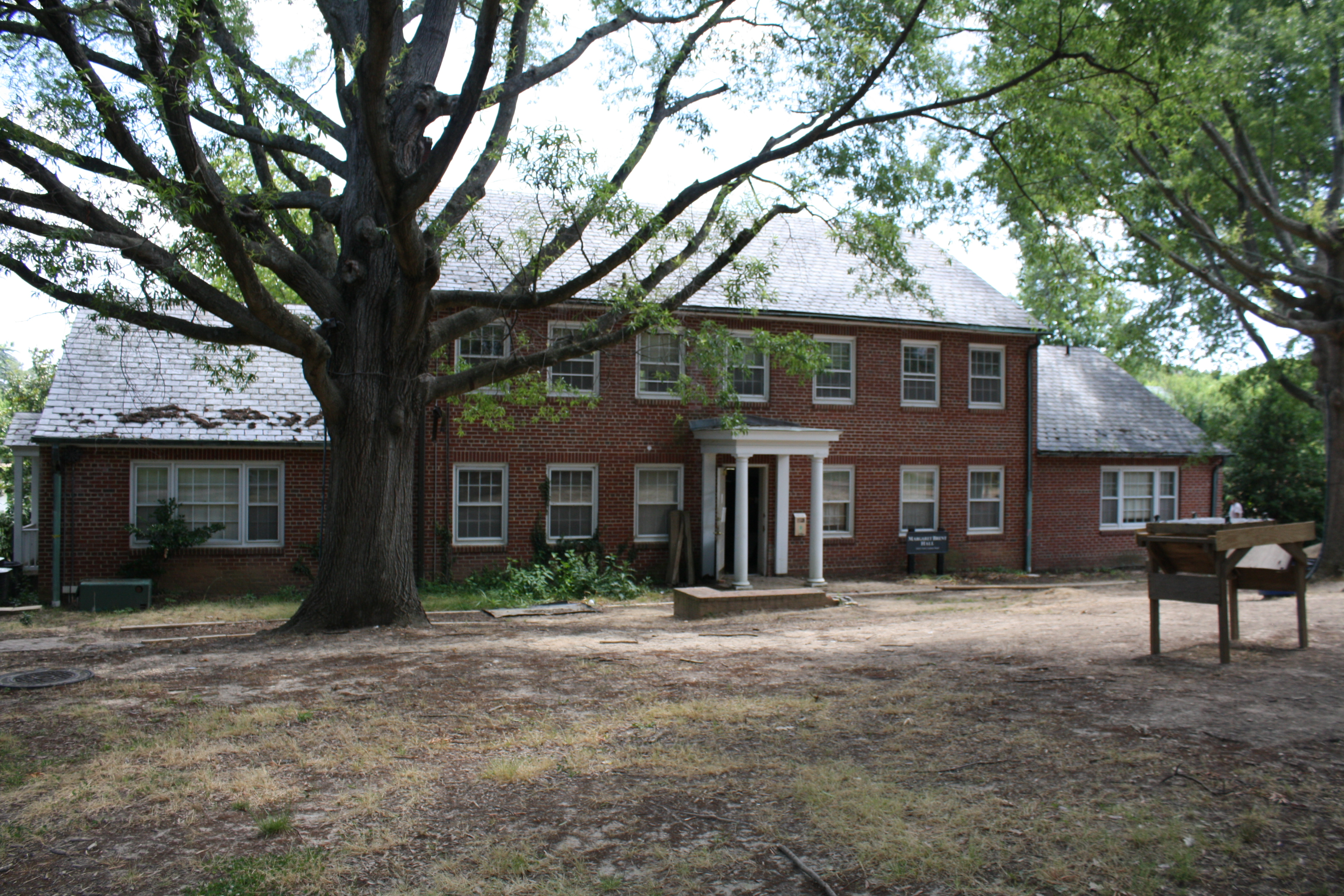 Campus of St. Mary's College of Maryland, Margaret Brent Hall. Photo, Elvert Barnes, 14 June 2011